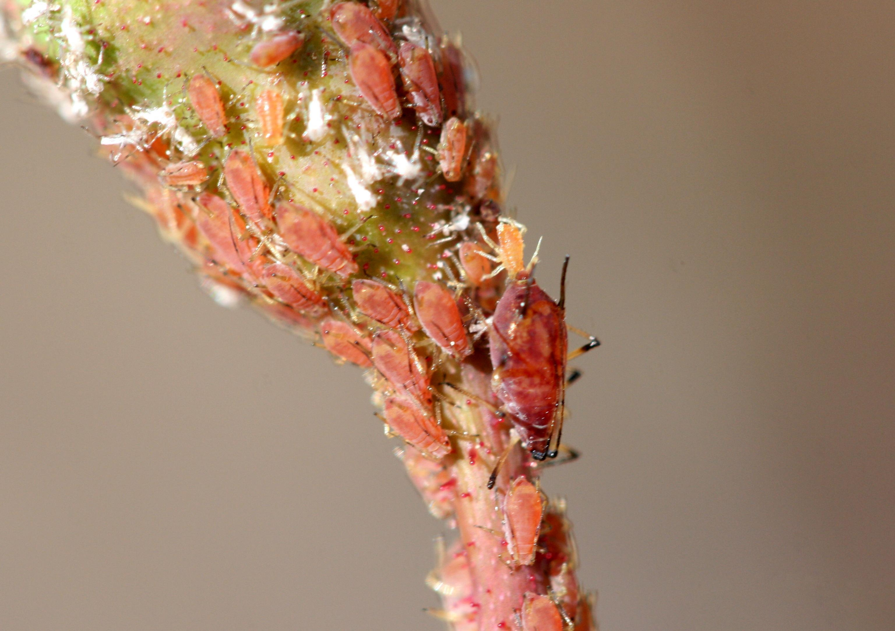 Macrosiphum rosae Linnaeus Host: rose Rosa spp. L. Common Name: rose aphid Photographer: Whitney Cranshaw, Colorado State University, United States Descriptor: Life Cycle Description: colony with adult birthing nymph Image taken in: United States